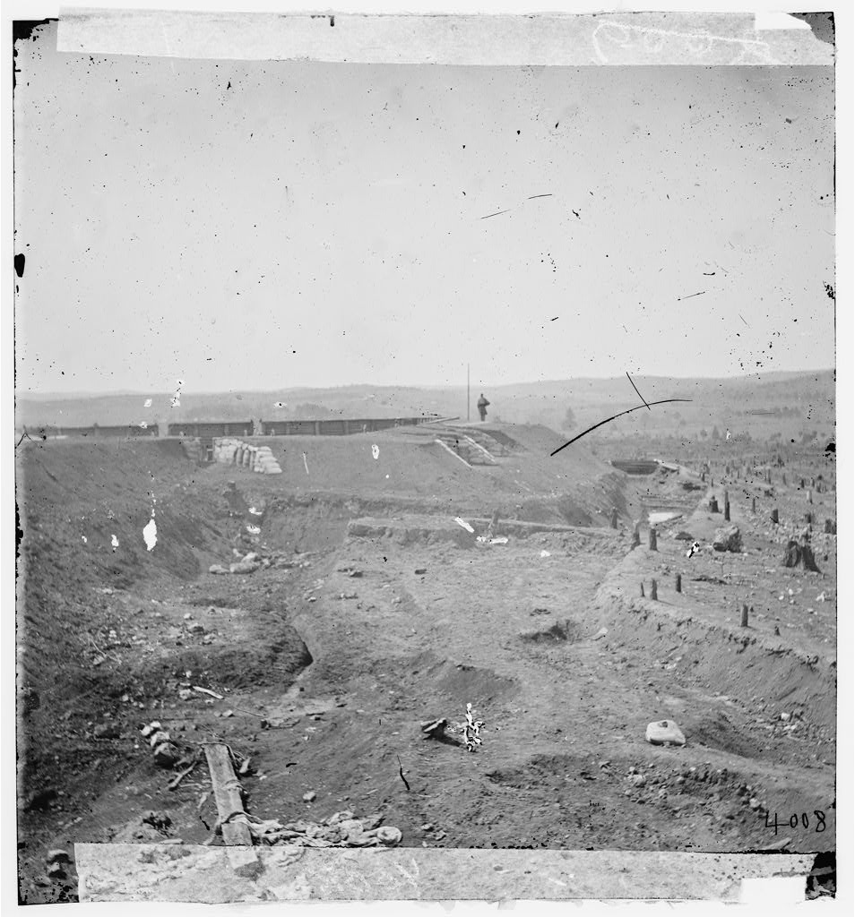 Fort Sanders in Knoxville, Tennessee, USA, photographed just over a year after the failed Confederate assault on the fort. A man stands atop the fort's wall at the center of the image.